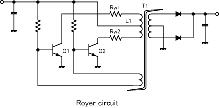 Royer Circuit